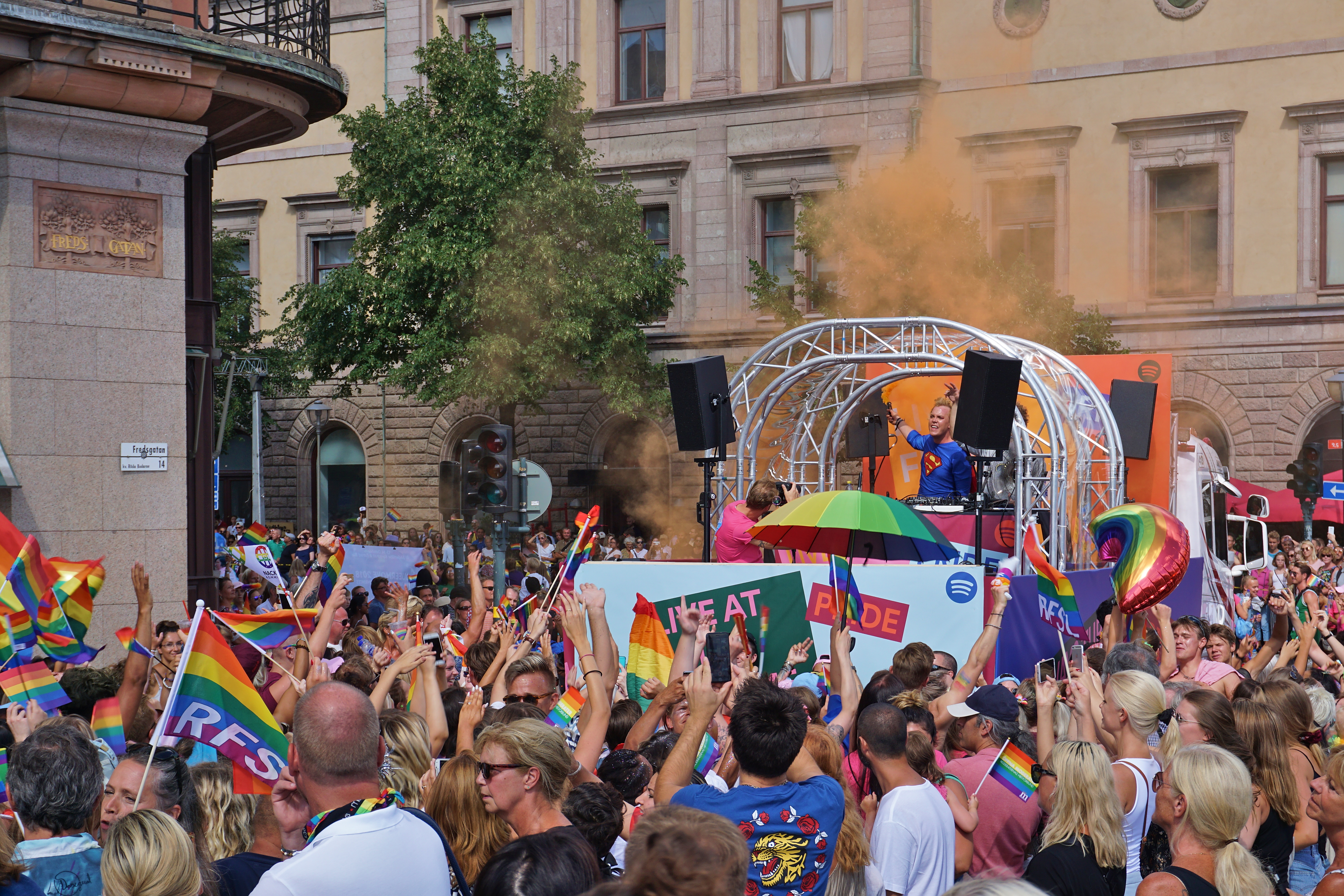 EuroPride 2018 Stockholm Pride